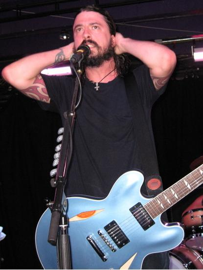 Photo of Dave Grohl of the Foo Fighters. Taken at a gig in Dingwalls, London on the 5th july 2007, by King sarah